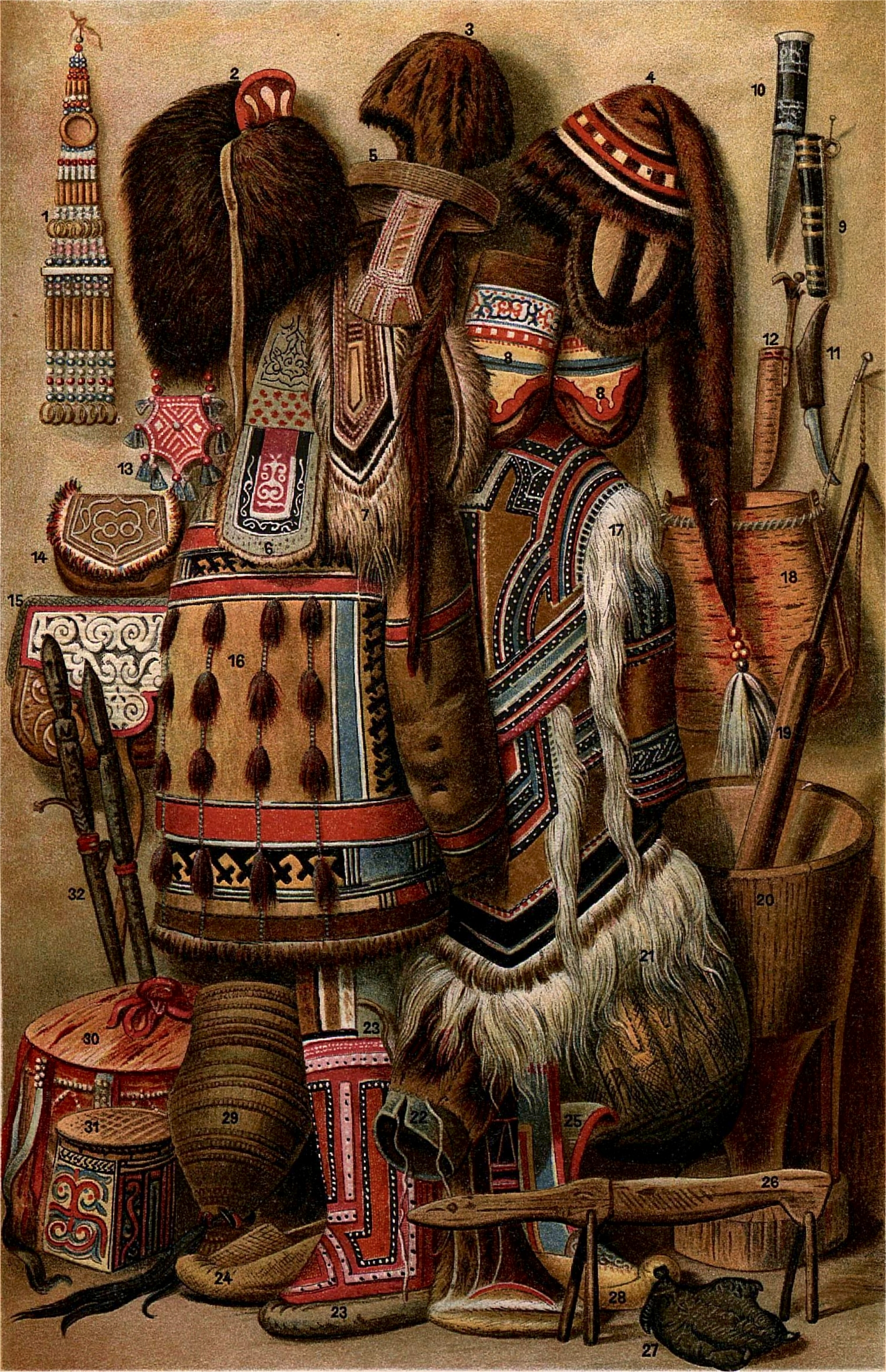 Asian cultural objects 1. Tofsprydnad (jakuter). 2. Pälsmössa (jakuter). 3. Pälsmössa (Ob-samojeder). 4. Mössa (jakuter). 5. Hakvärmare(jakuter). 6. Bröstlapp (tunguser). 7. Bröstlapp (Taimyr-tunguser). 8. Vantar (tunguser). 9, 10. Slida o. knif (tunguser). 11, 12. Knif o. slida (jakuter). 13. Tobakspung (sydtunguser). 14. Läderväska (tunguser). 15. Arbetsväska (tunguser). 16. Päls (samojeder). 17. Hvardagsrock (tunguser). 18. Näfverskäppa (Ob-samojeder). 19, 20. Mortelstöt o. trämortel (jakuter). 21. Resväska af lakskinn. 22. Benbeklädnad (tunguser). 23. Benbeklädnad för kvinna (samojeder). 24. Sko för kvinna (orotsjoner). 25. Stöfvel (Taimyr-samojeder). 26. Afgudabild (en ren). 27. Tranflaska (svanfot, samojeder). 28. Sko för man (tunguser). 29. Kumys-kantin (jakuter). 30. Korg för tekök (tunguser). 31. Korg af björk (tunguser). 32. Husgudar af trä.